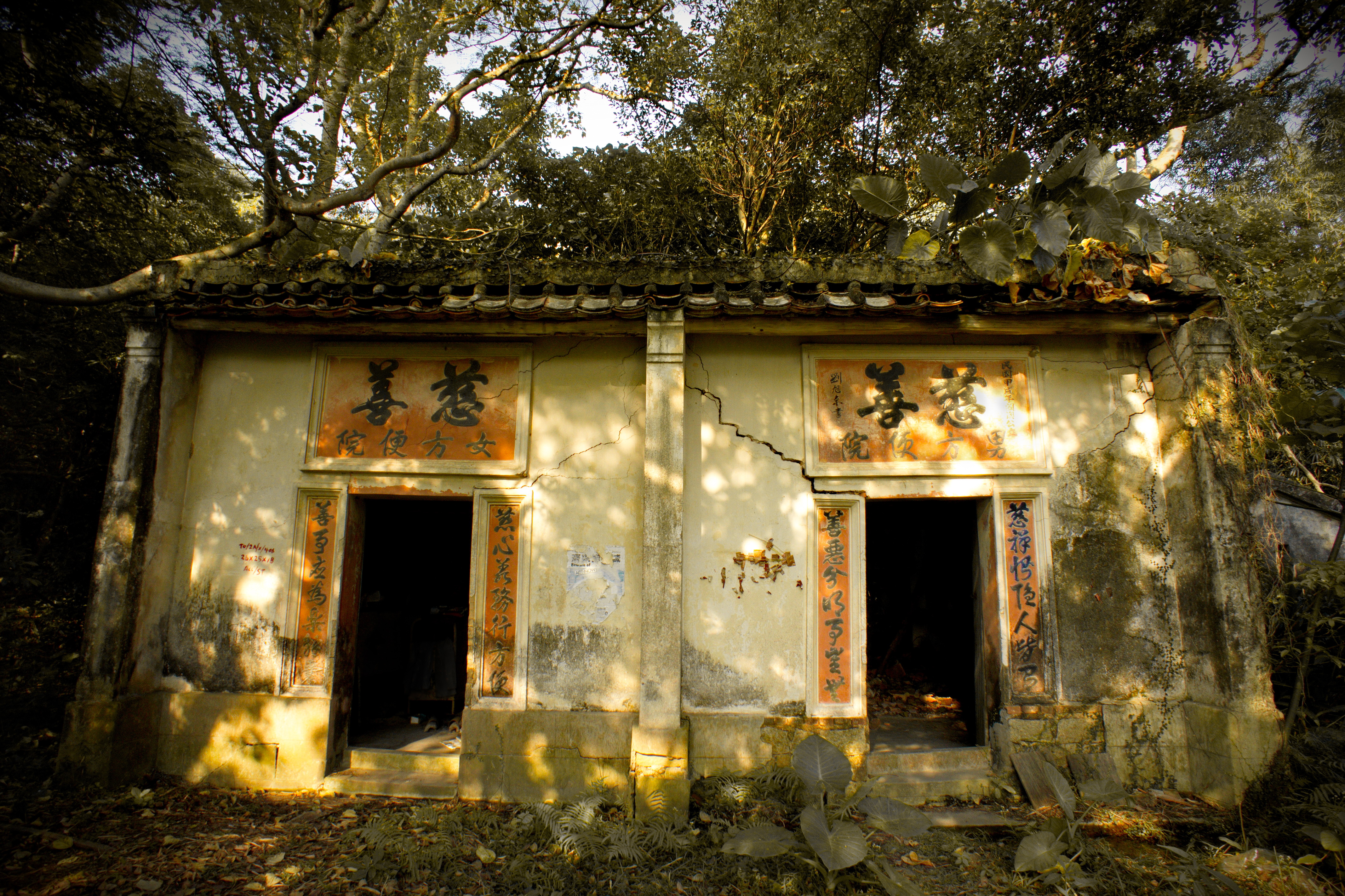 An abandoned village hospice in Tai O, Lantau Island, Hong Kong. The term "Fong Bin Yuen" literally means "convenient house". It was built by a lady (with the family name Yip) in the 1930s. The purpose of the charity house was to provide care services to dying elderly persons and patients with advanced diseases at the end of their lives.